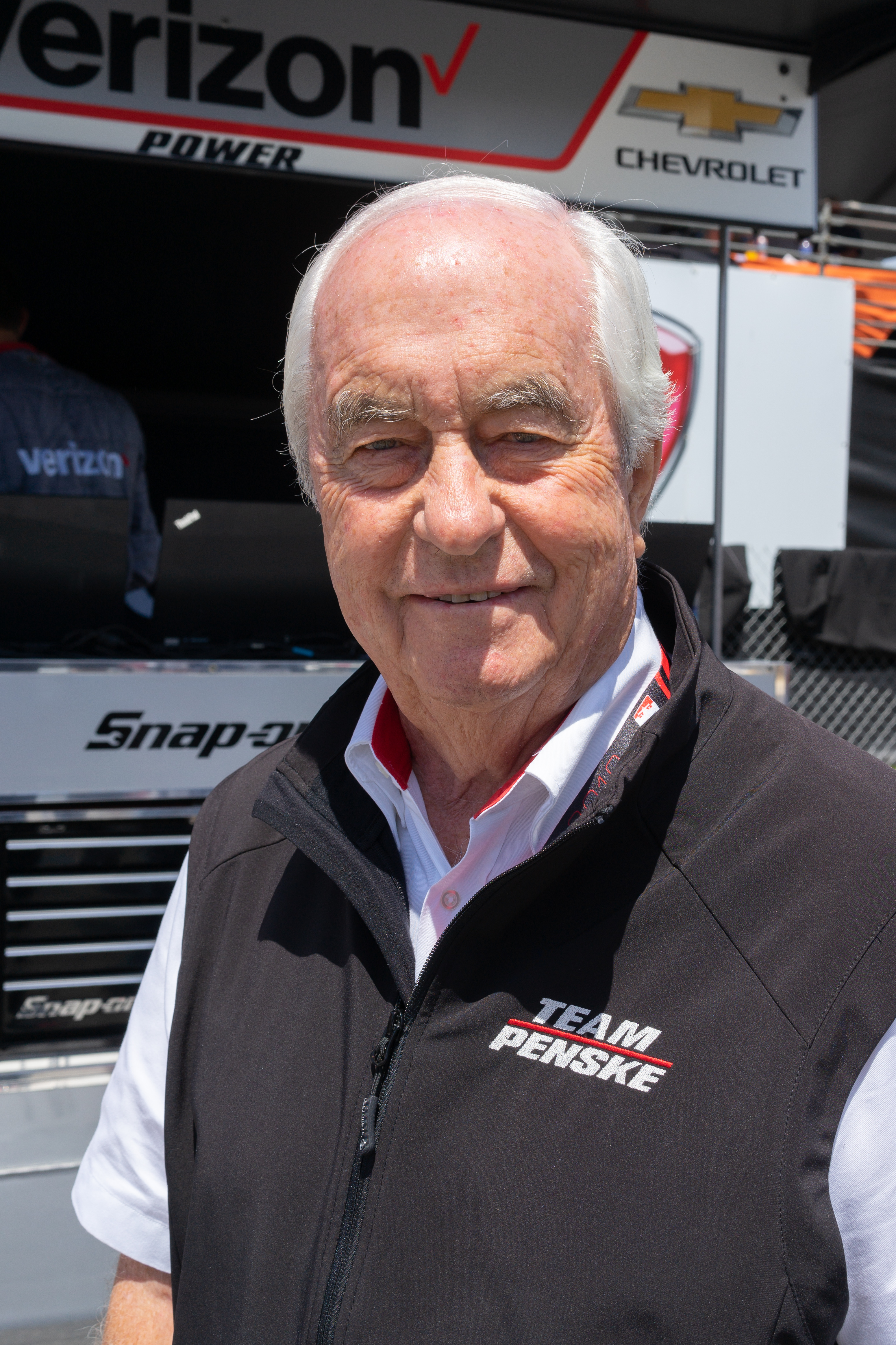 Portrait of founder and chairman Roger S. Penske in front in the pits during the Indycar Long Beach Grand Prix 2019